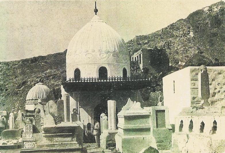 Khadija bint Khuwaylid tomb